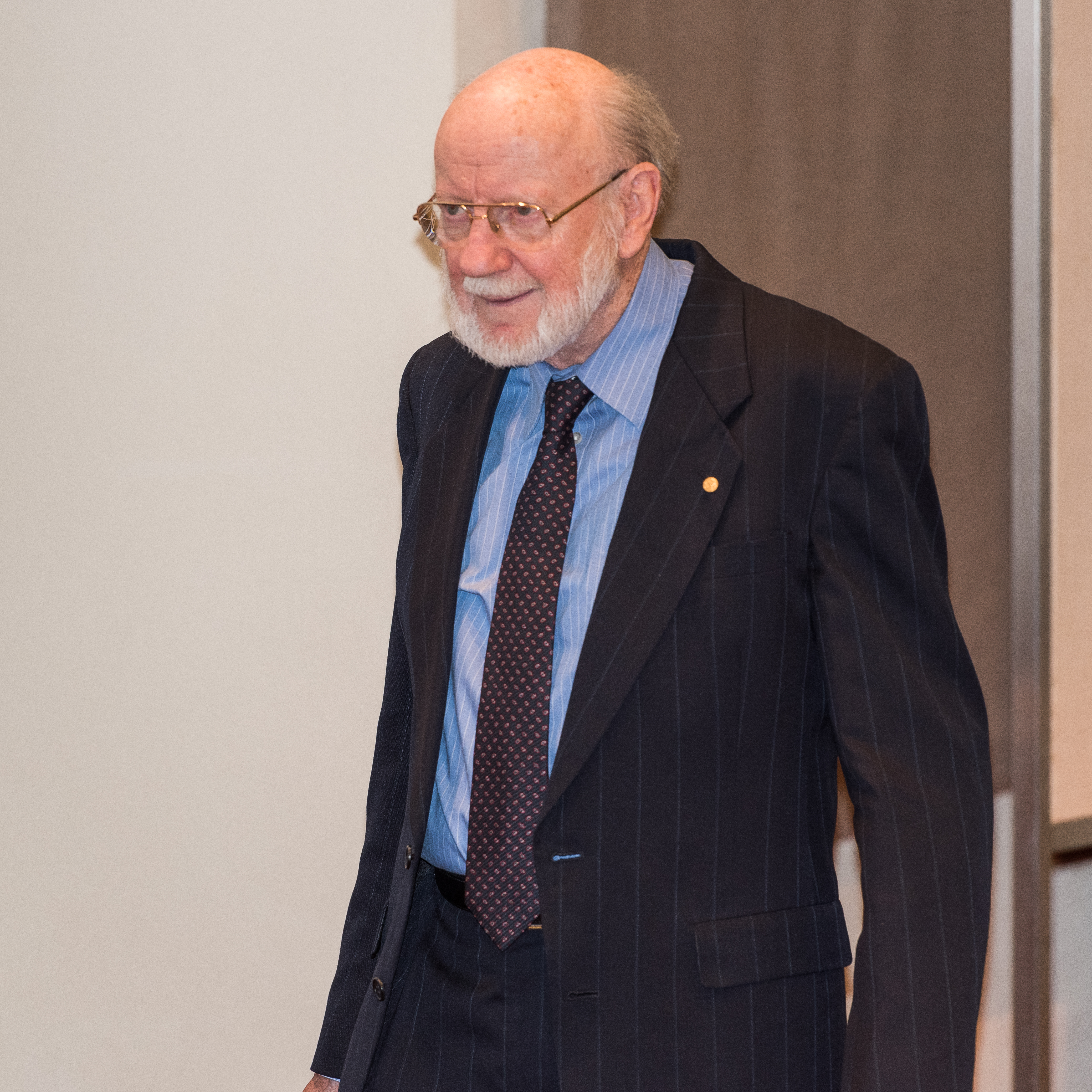 William C. Campbell, Nobel Laureate in medicine in Stockholm December 2015